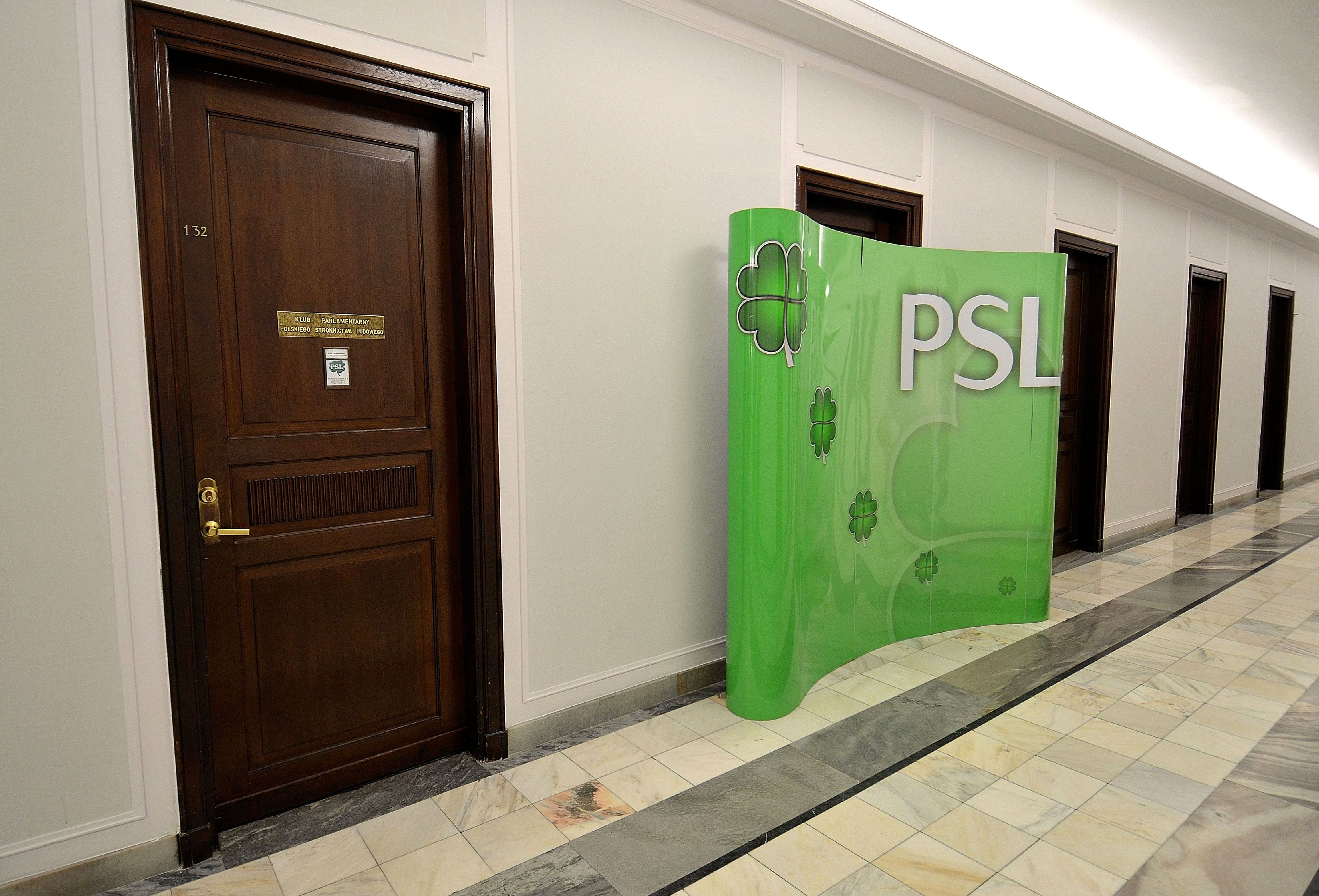 Offices of the PSL parliamentary club in the Sejm